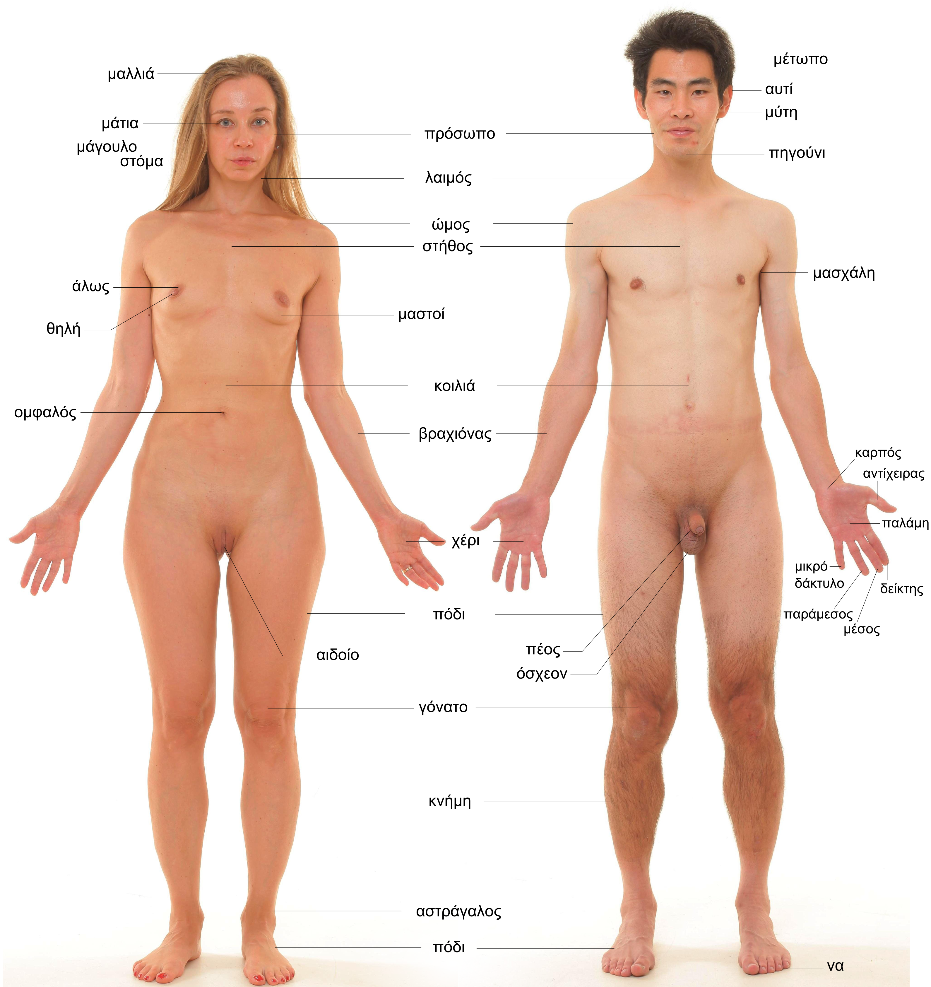 Naked female and male human body with labels.